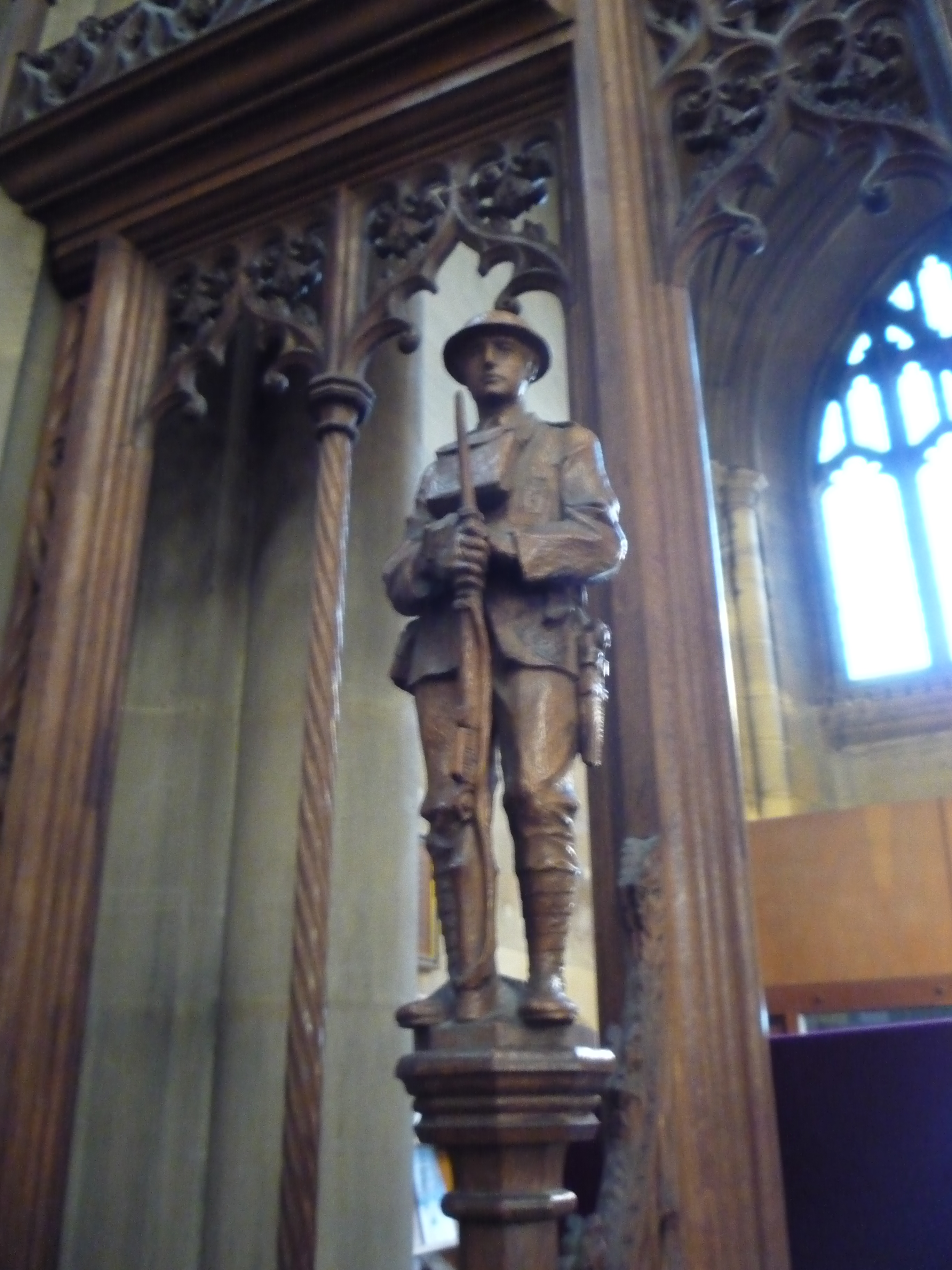 Wooden figure of a World War I infantryman on the memorial screen to the 4th Battalion, Queen's Royal Regiment (West Surrey), in Croydon Minster